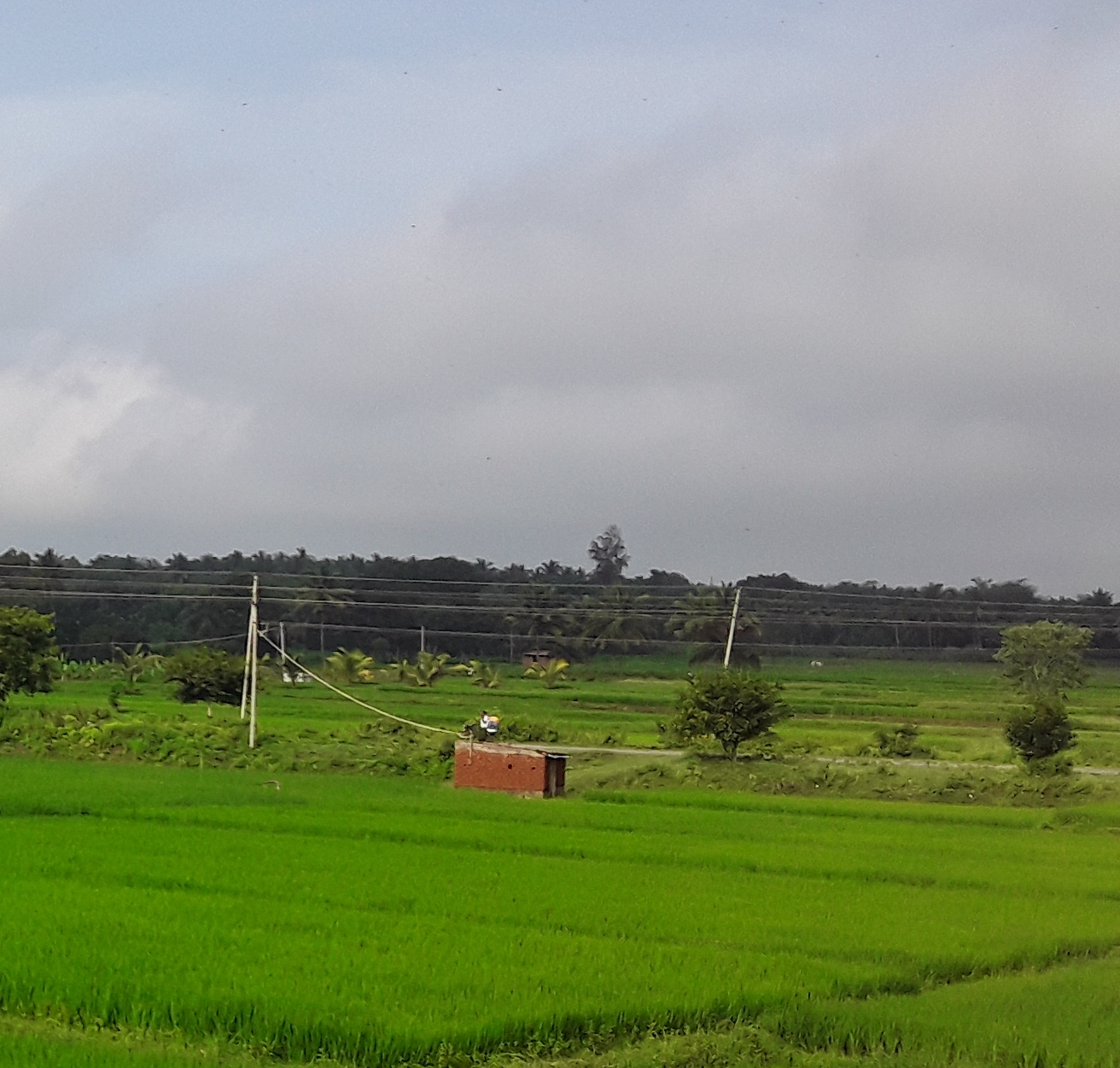 Karnataka, India